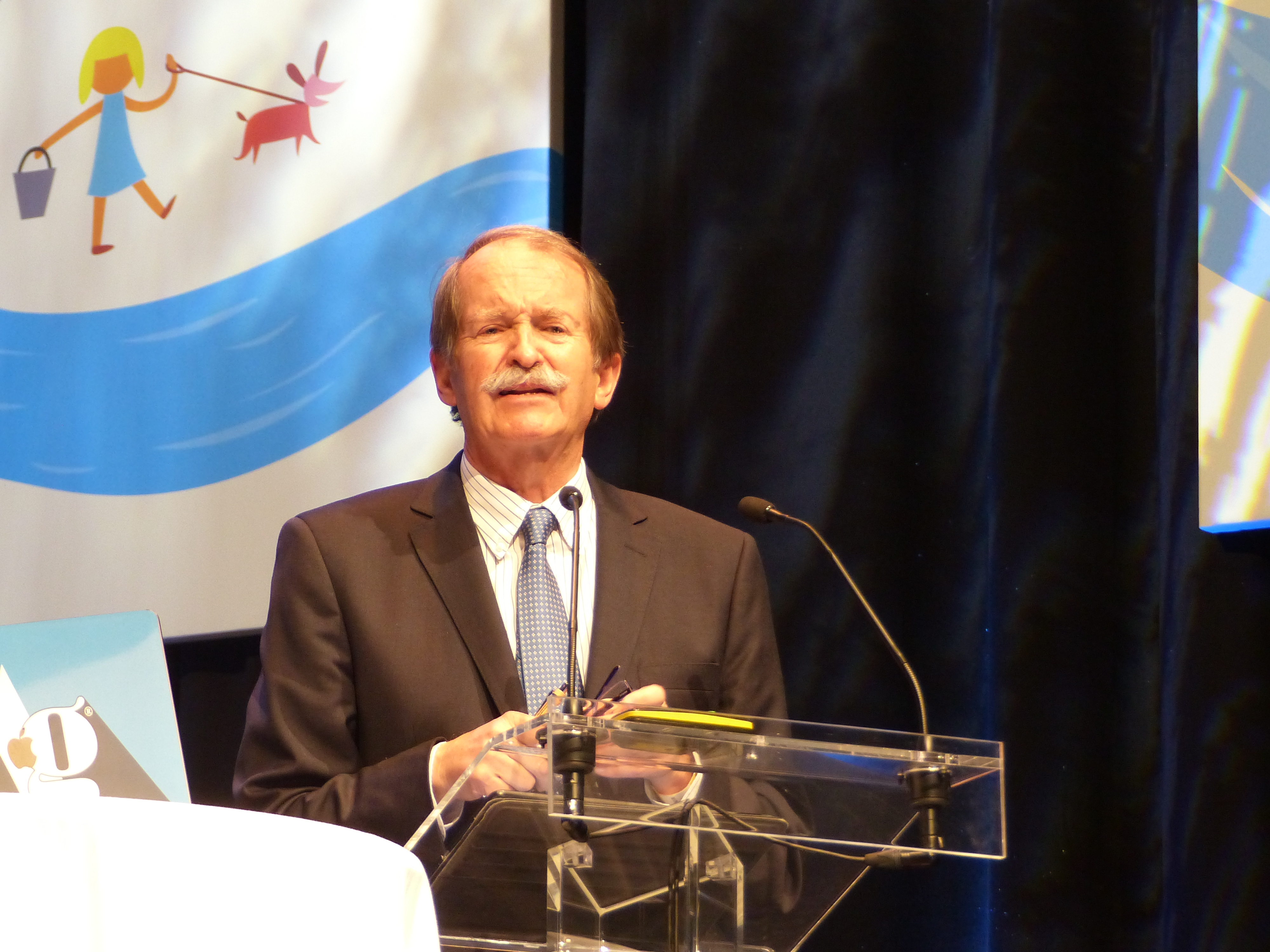 Duarte Pio di Braganza. Taken on the 27th of May, 2017. World Congress of Families XI. Budapest Congress Center. Hungary, Central Europe.